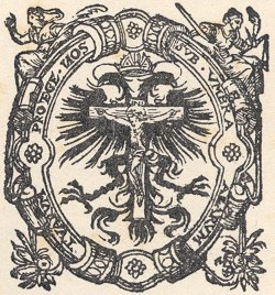 Title Page of "Het prieelken der gheestelyker wellusten", author: Katherina Boudewyns (Brussels), published in 1587